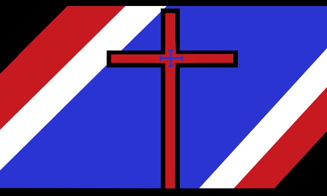 Flag belonging to the Huttare militia, commonly used in this training camps